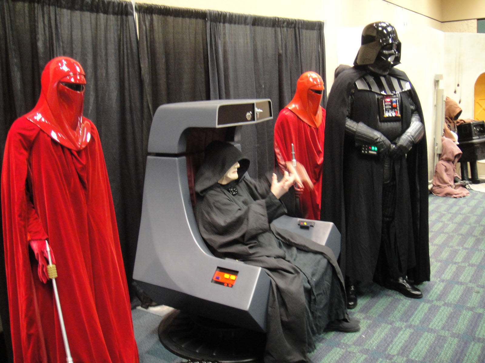 Star Wars Celebration V - 501st room - the Emperor, Royal Guards, and Darth Vader